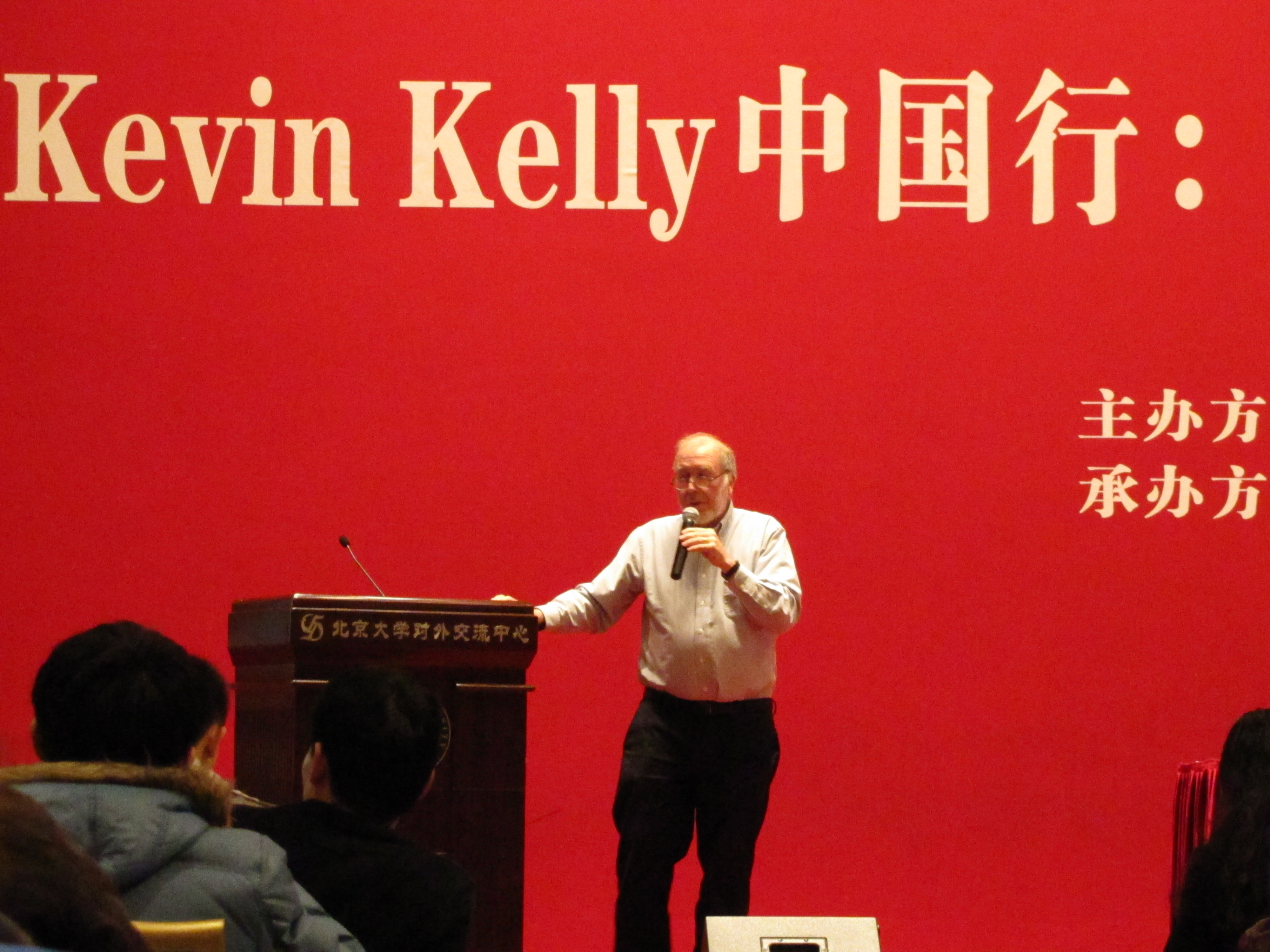 Kevin Kelly giving a speech in Peking University, Beijing, China.